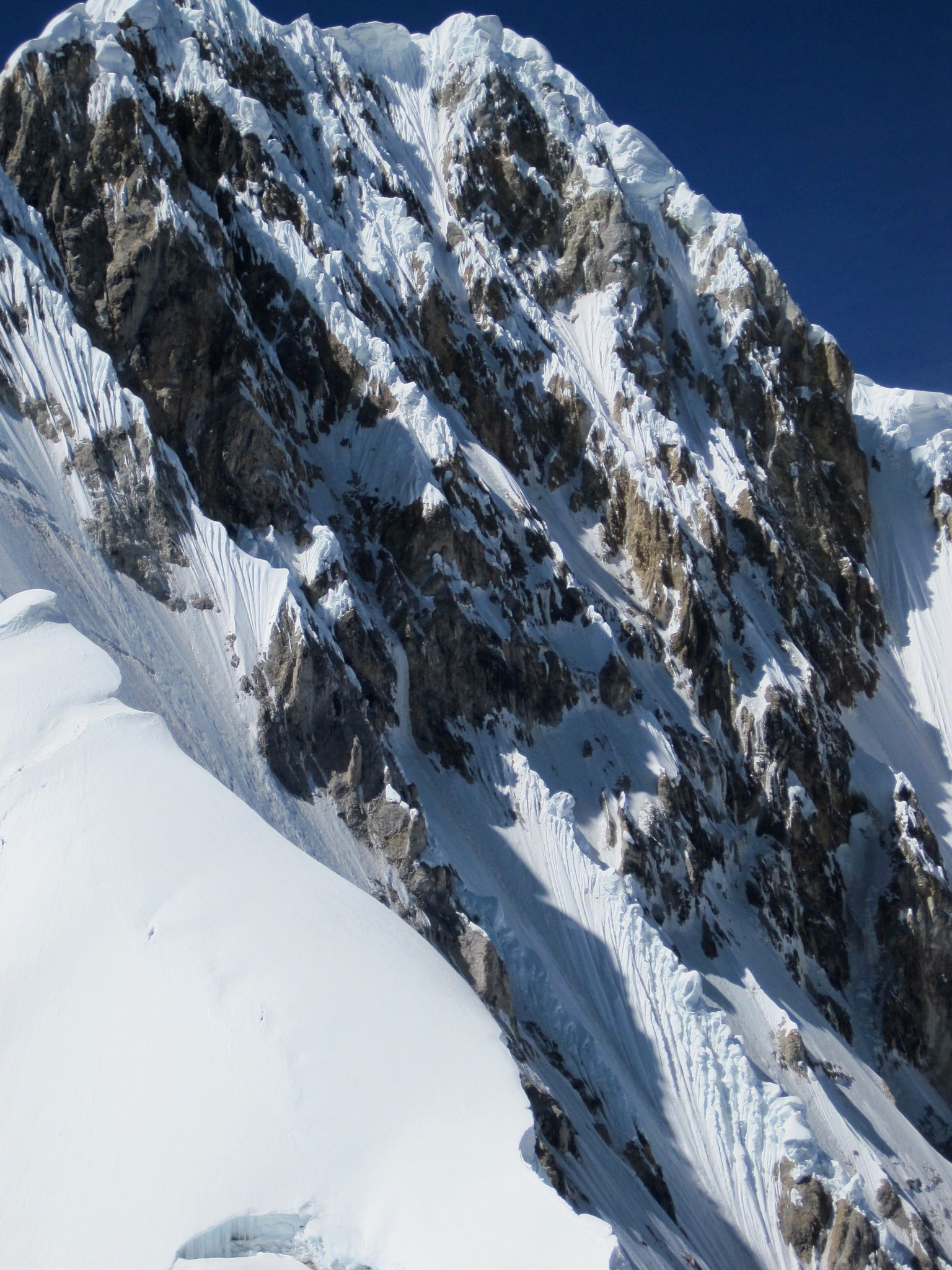 The west face of Siula Grande, taken from the col between Siula Grande and Yerupaja, Cordillera Huayhuash